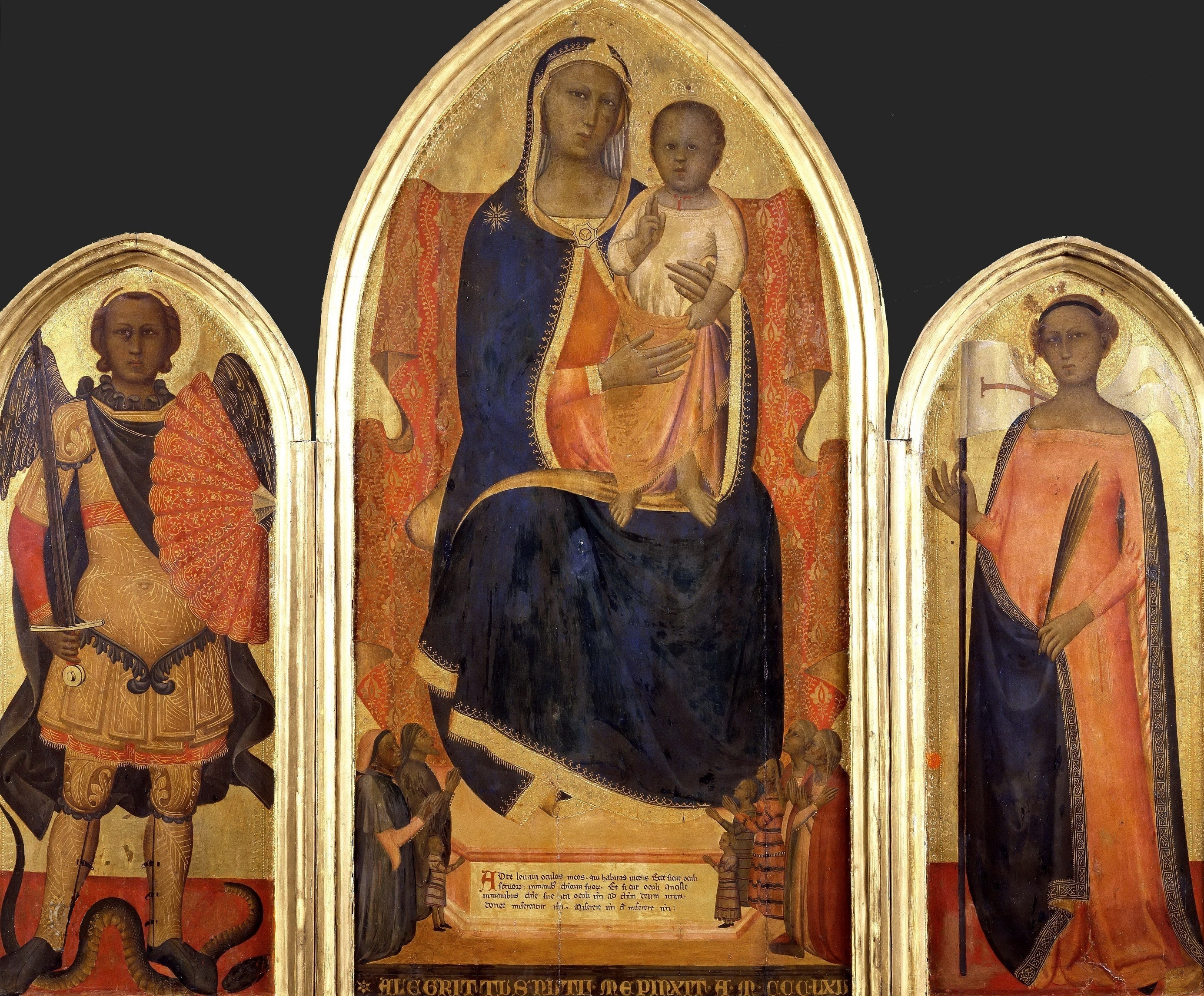 Allegretto Nuzi. The Virgin Enthroned Between Saints Michael and Ursula. 1365. Pinacoteca Vaticana